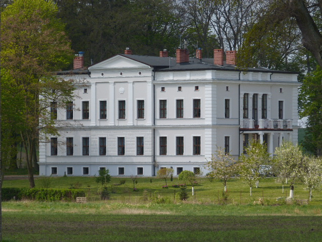 Palace in Mołtowo, Poland